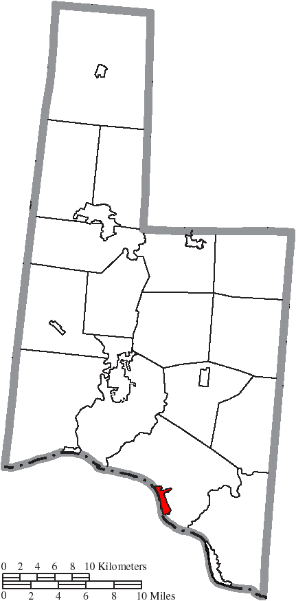 Map of the municipal and township boundaries of Brown County, Ohio, United States, as of the 2000 census, with the location of the village of Ripley highlighted. Township borders are shown only in unincorporated areas in order to differentiate incorporated and unincorporated areas more clearly.